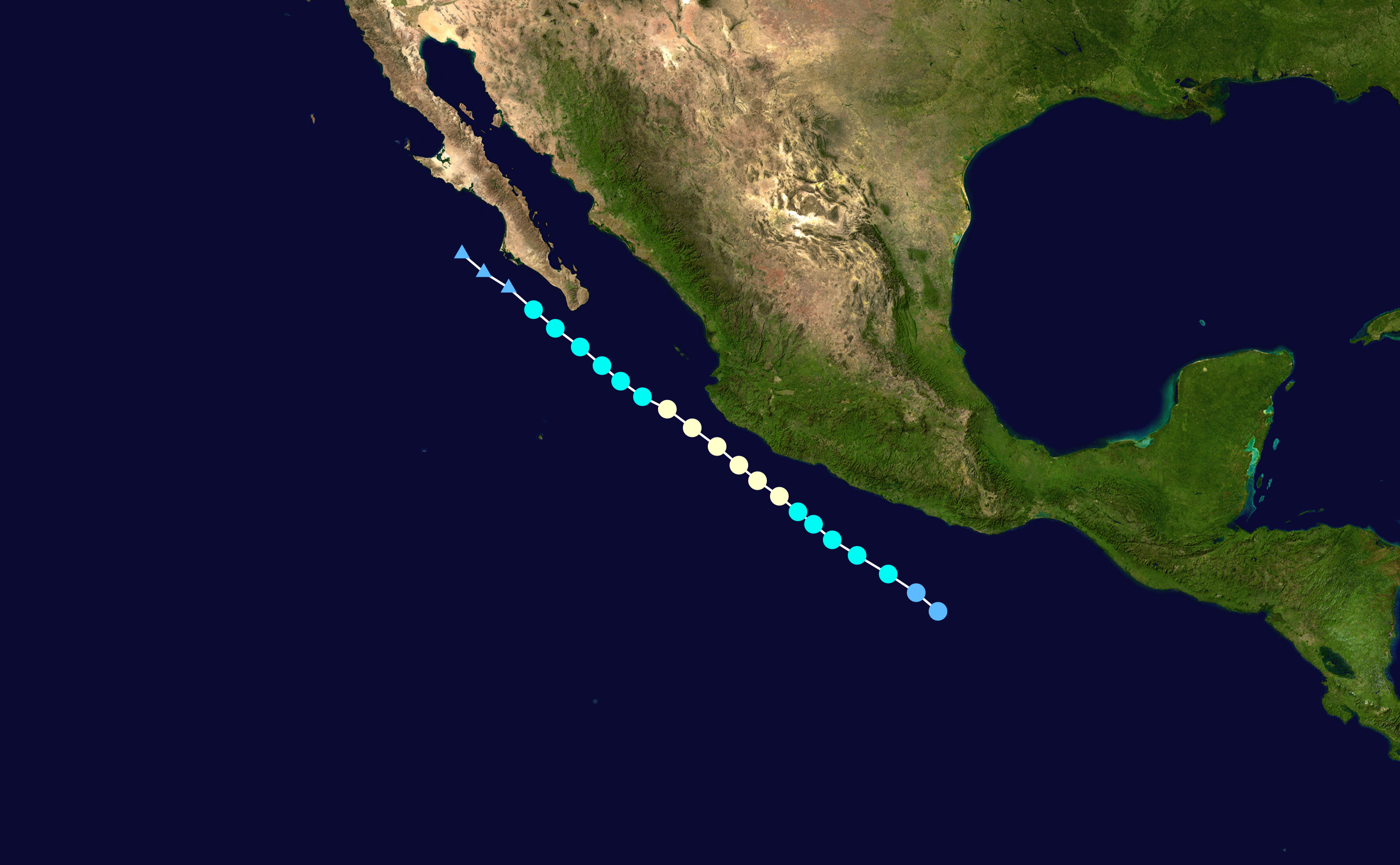 Track map of Hurricane Erick of the 2013 Pacific hurricane season. The points show the location of the storm at 6-hour intervals. The colour represents the storm's maximum sustained wind speeds as classified in the Saffir–Simpson scale (see below), and the shape of the data points represent the nature of the storm, according to the legend below. Saffir–Simpson scale Tropical depression≤38 mph≤62 km/h Category 3111–129 mph178–208 km/h Tropical storm39–73 mph63–118 km/h Category 4130–156 mph209–251 km/h Category 174–95 mph119–153 km/h Category 5≥157 mph≥252 km/h Category 296–110 mph154–177 km/h Unknown Storm type Tropical cyclone Subtropical cyclone Extratropical cyclone / Remnant low / Tropical disturbance / Monsoon depression